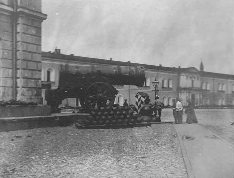 PH Coll 214.J16a